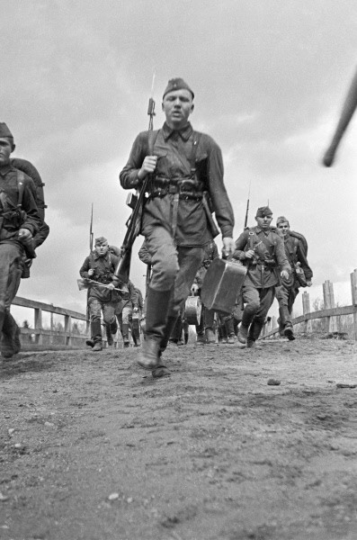 “Red Army soldiers. Leningrad defenders”. Red Army soldiers. Leningrad defenders. Leningrad, October 1942